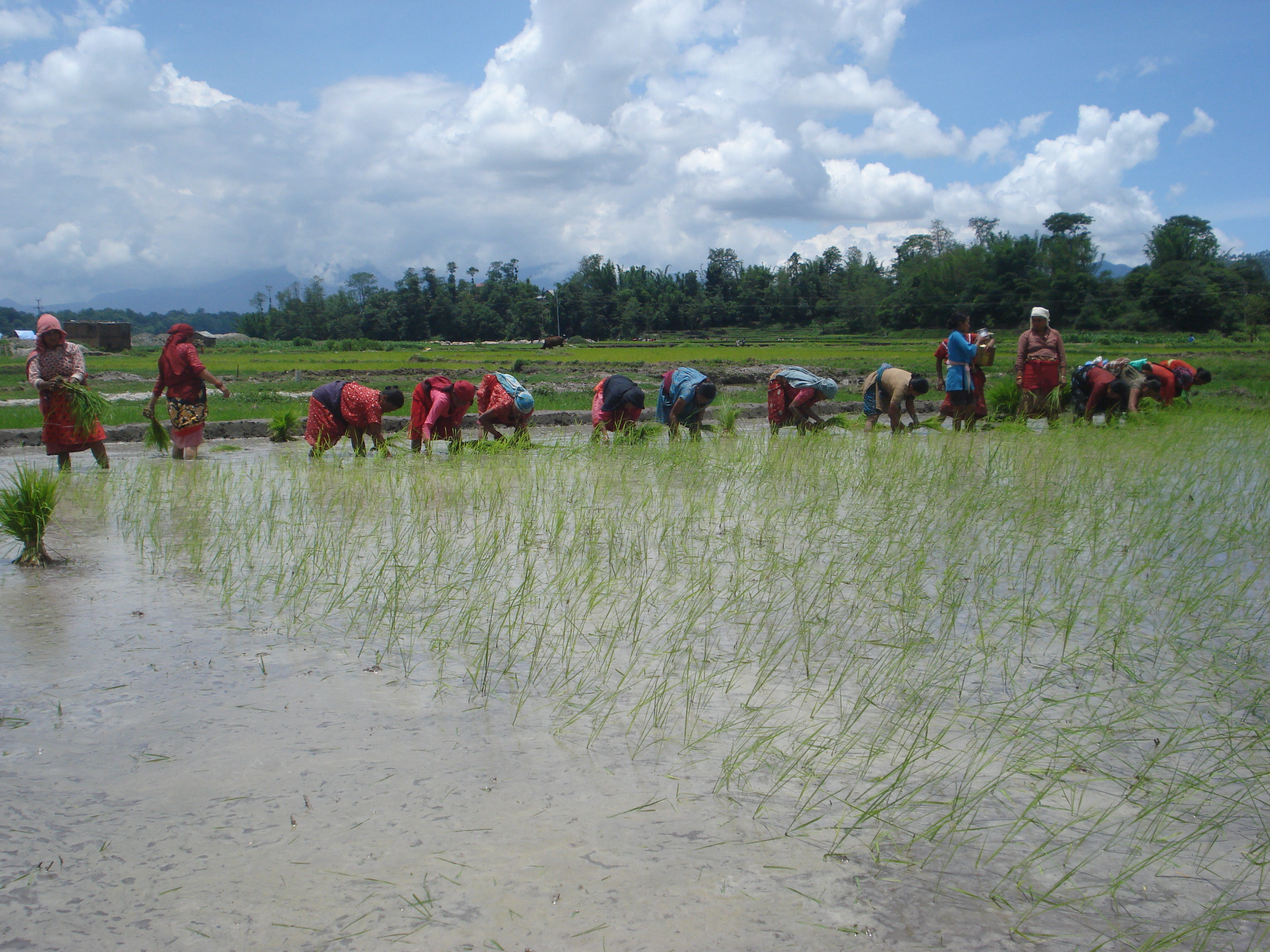 Sundarijal